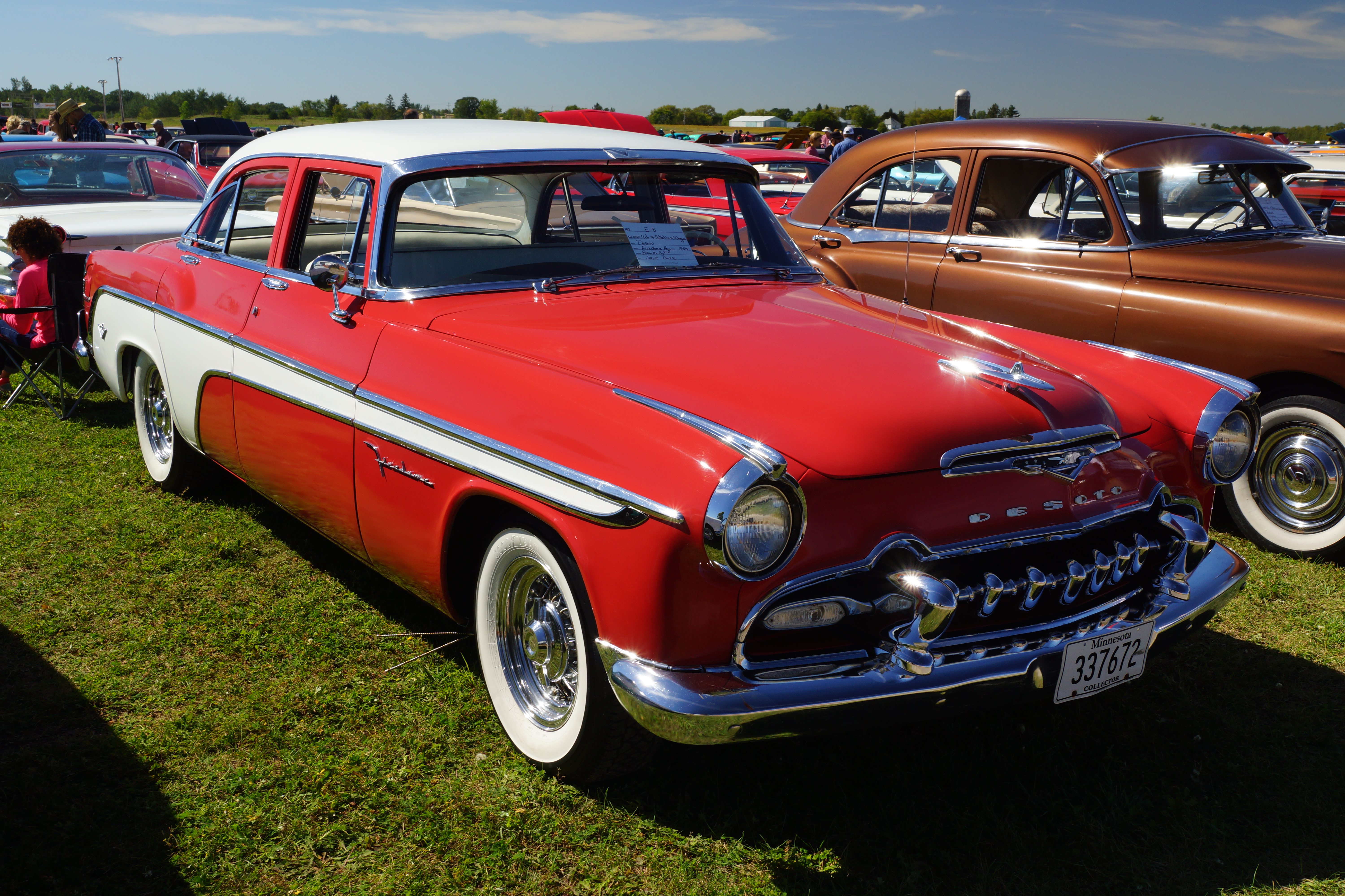 42nd Annual Lone Eagle Auto Club Car Show / Swap Meet Morrison County Fairgrounds Little Falls, Minnesota September 2016 Click here for more car pictures at my Flickr site.